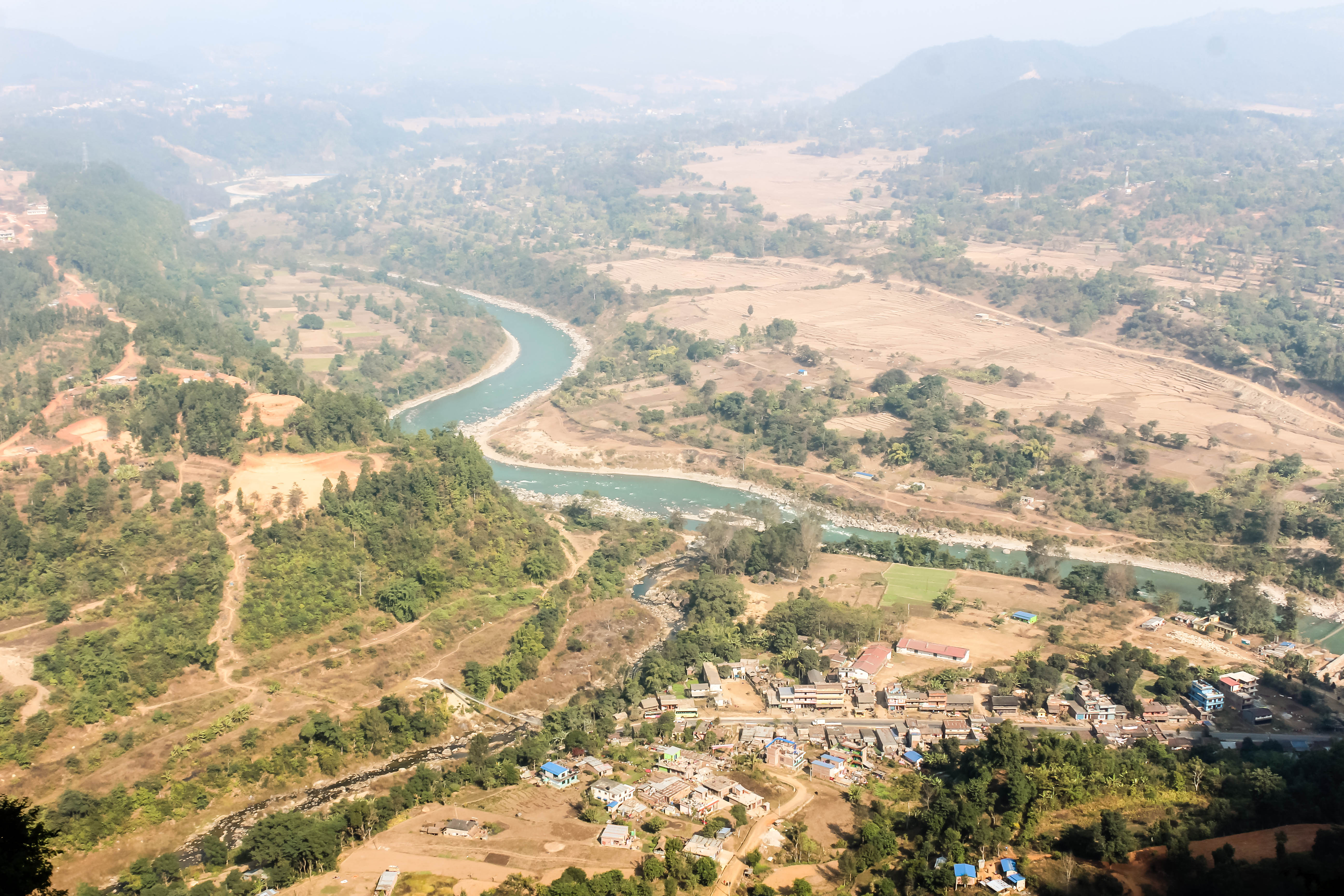 The Marshyangdi (or Marsyangdi) (Nepali: मर्स्याङ्दी, marśyāṅdī) is a mountain river in Nepal. Its length is about 150 kilometres. The Marshyangdi begins at the confluence of two mountain rivers, the Khangsar Khola and Jharsang Khola, northwest of the Annapurna massif at an altitude of 3600 meters near Manang village. The Marshyangdi flows eastward through Manang District and then southward through Lamjung District. The Marshyangdi joins the Trishuli near Mugling as one of its tributaries. The beginning of the Annapurna Circuit trekking route follows the Marshyangdi river valley